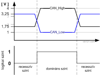 CAN bus "low speed" signals